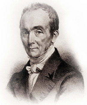 Portrait of Ami Bost (1790-1874)